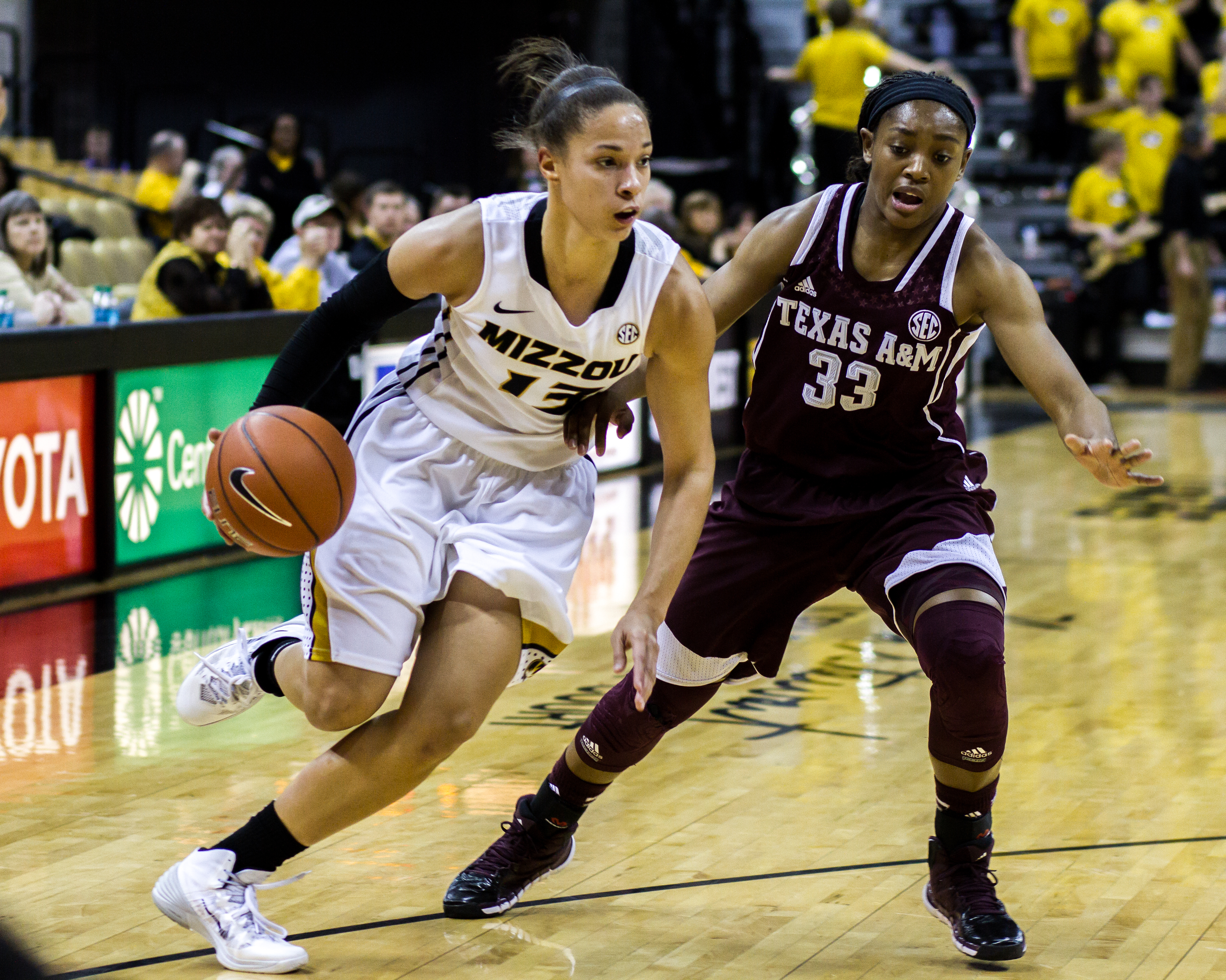 Bri Kulas dribbles past a Texas A&M player at Mizzou Arena.